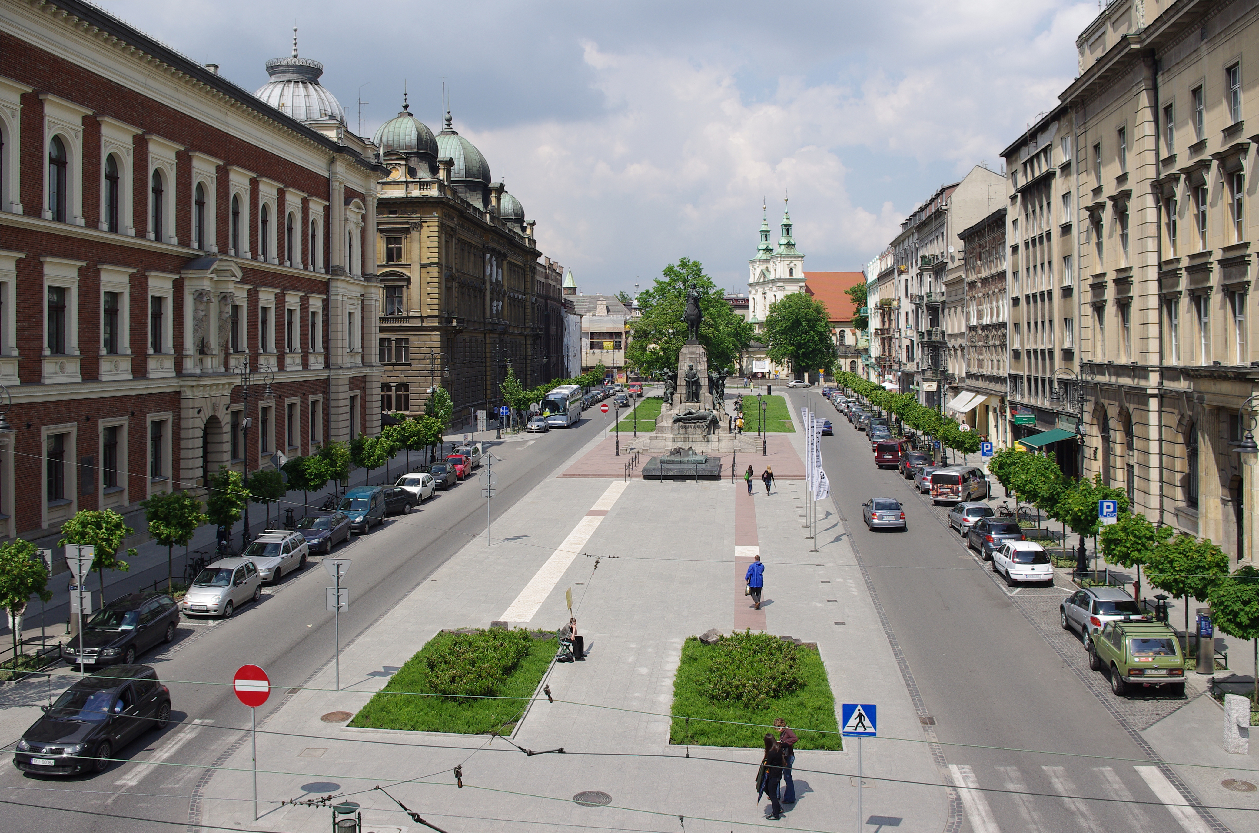 Jan Matejko Square in Kraków